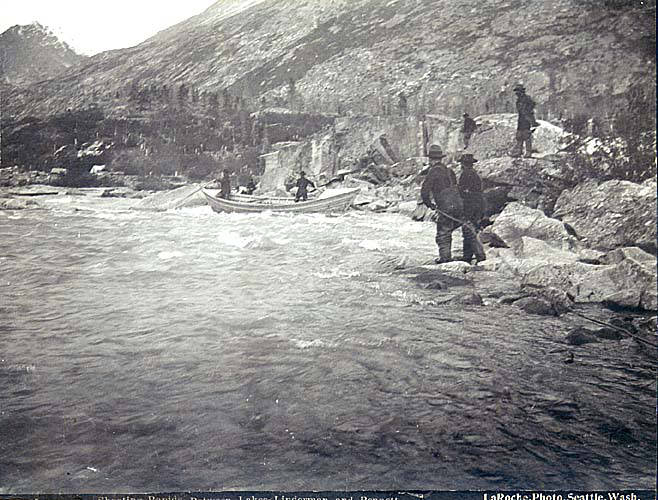 Caption on image: "Shooting rapids between Lakes Lindeman and Bennett" "Rapids on Lewes River. Skill, cool heads and hard work are the necessary requirements for navigating the rapids of the Lewes River. Here is portrayed an exciting scene, similiar to which everyone who goes to the Klondike in the same way must experience. Partly guided by ropes in the hands of men ashore and steered clear of dangerous rocks by men in the boat, the frail craft dashes and struggles along, at one time miraculously escaping destruction in a wild eddy and at another time gliding gracefully between jagged rocks that rise threateningly out of the seething waters. There is no time to think - a sharp lookout and a steady hand are the only means to victory over the angry waters of the rapids one meets en route to the Klondike." (Frank La Roche, En Route to the Klondike, 1898) Klondike Gold Rush. Subjects (LCTGM): Canoes--British Columbia; Rowboats--British Columbia; Rapids--British Columbia; Rivers--British Columbia Subjects (LCSH): One Mile River (B.C.)